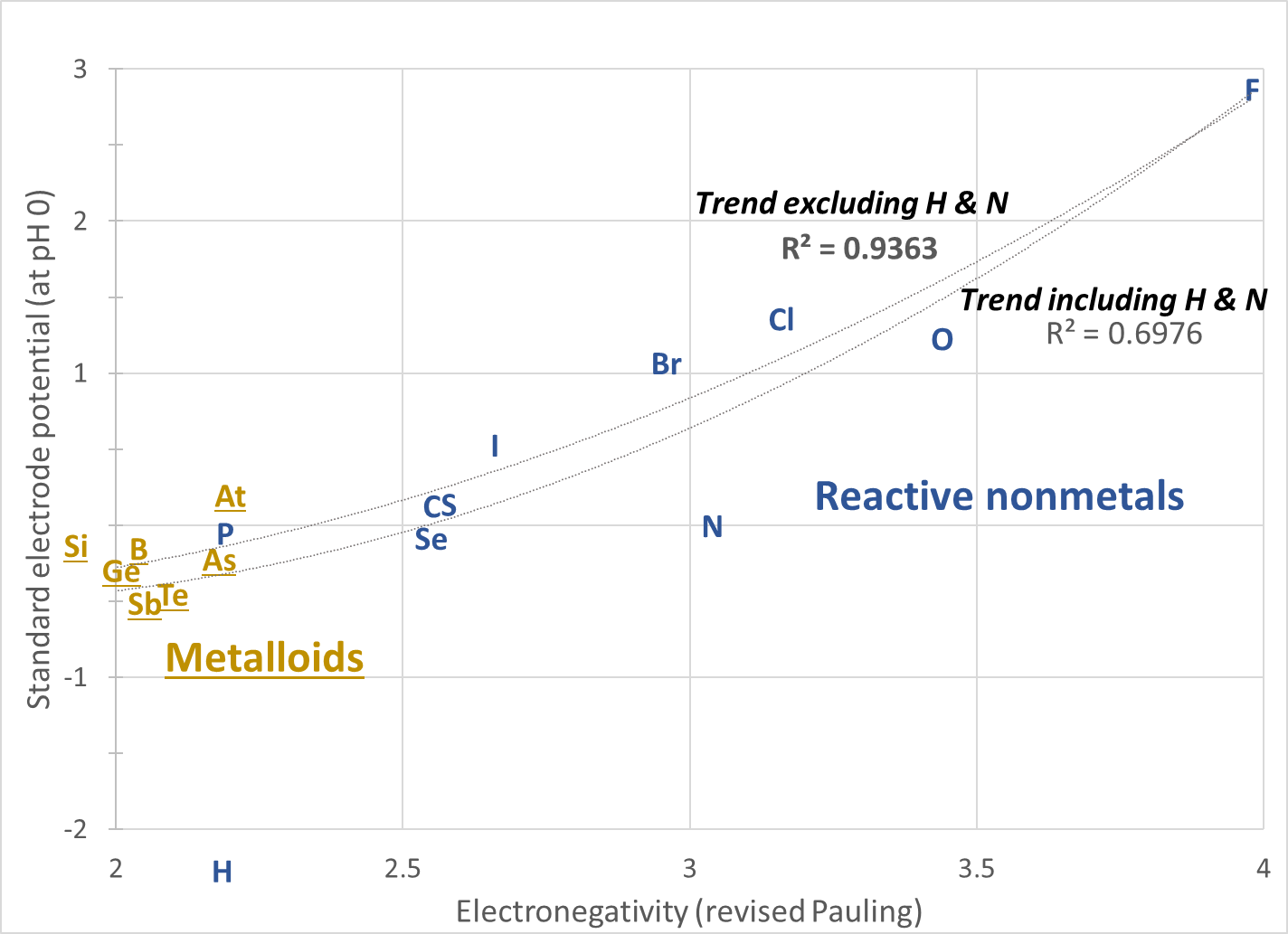 Scatter plot of electronegativity values and standard electrode potentials of nonmetallic elements